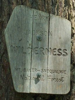 US Forest Service sign along the North Fork Skykomish Trail at the edge of the Henry M. Jackson Wilderness Area.